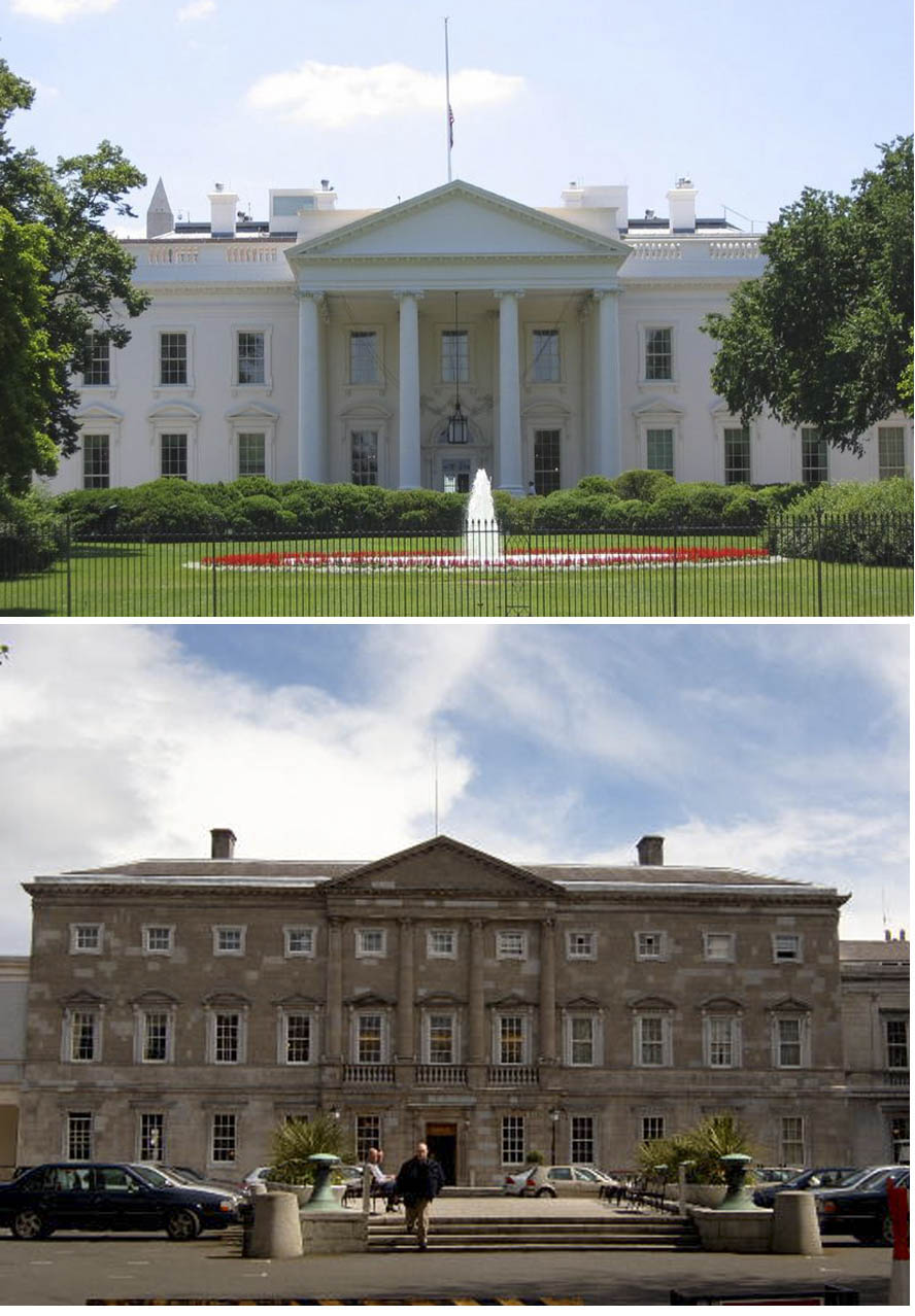 A comparison of the North Portico of the White House with the Leinster House